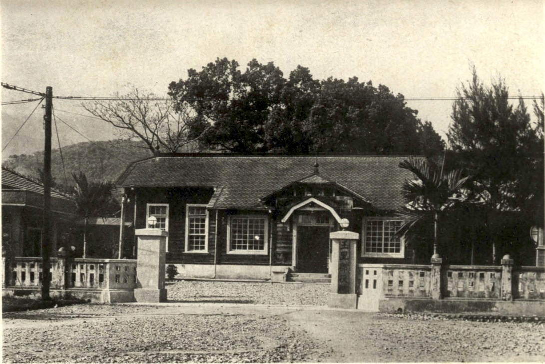 Tamazato-gun yakusho